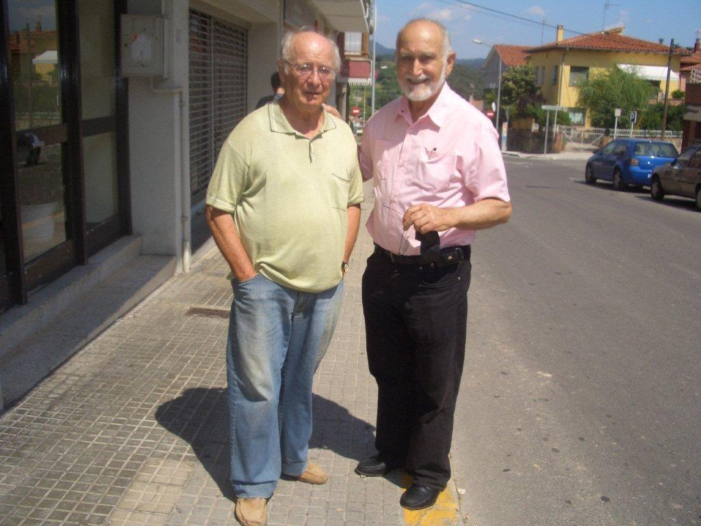 Màrius Pujol and Pere Pi in Berga, circa 2010